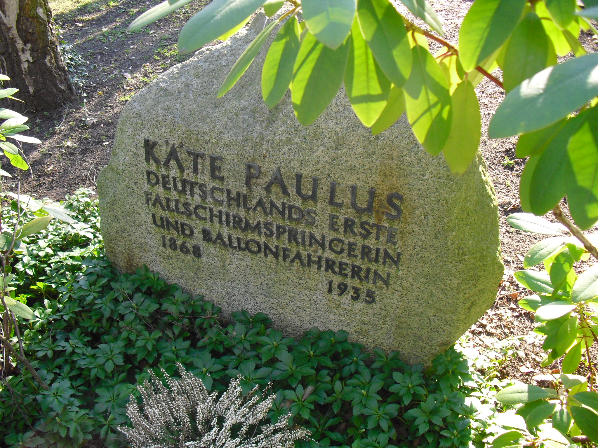 Honory grave of Käthe Paulus (1868–1935), German aerial acrobat and inventor of the folding parachute (knapsack parachute). She was the first German woman to parachute out of a hot-air balloon